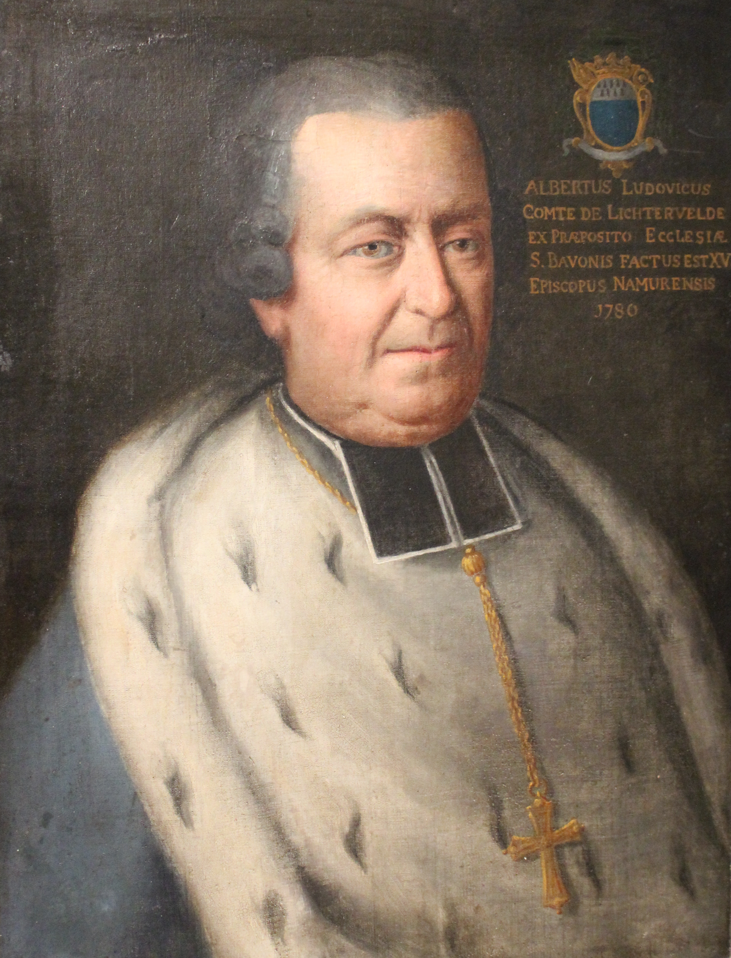 Portrait of Count Albert-Louis de Lichtervelde in the Saint Bavo cathedral in Ghent.